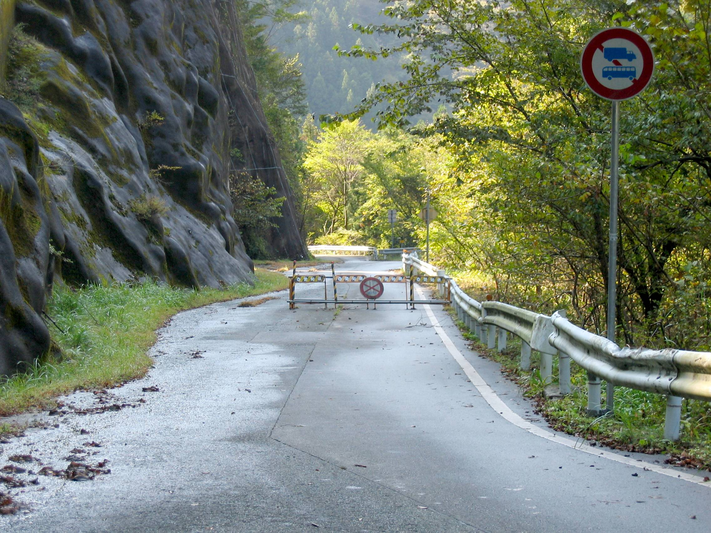 Closed section on the Aichi Prefectural Road Route 429 in Toyone Village, south to the Onyu Tunnel